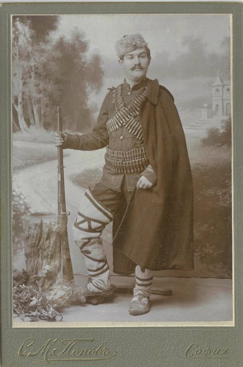 Portrait of bulgarian revolutionary Todor Kotsev from Pleven, member of Bogdan Barov's cheta in 1903